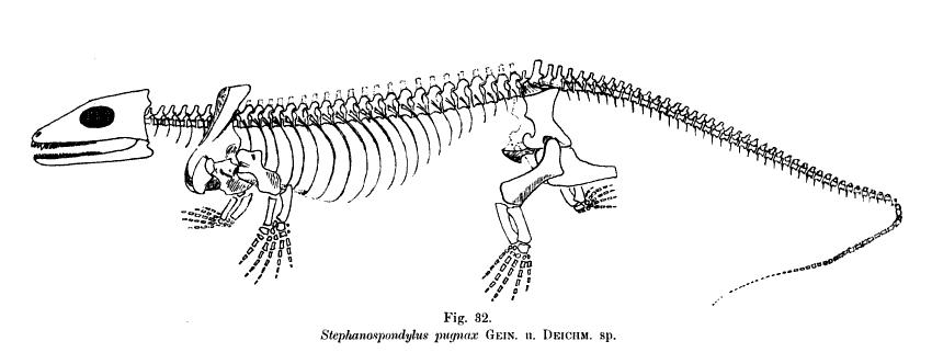 Reconstruction of the skeleton of Stephanospondylus pugnax from "Uber Stephanospondylus n. g. und Phanerosaurus H. v. Meyer" by R. Stappenbeck (Zeitschrift der Deutschen Geologischen Gesellschaft 57: 380–437). This reconstruction was based on material from Stephanospondylus and the amphibian Onchiodon found together on the same slab. The bones of both animals were thought to represent a single individual.